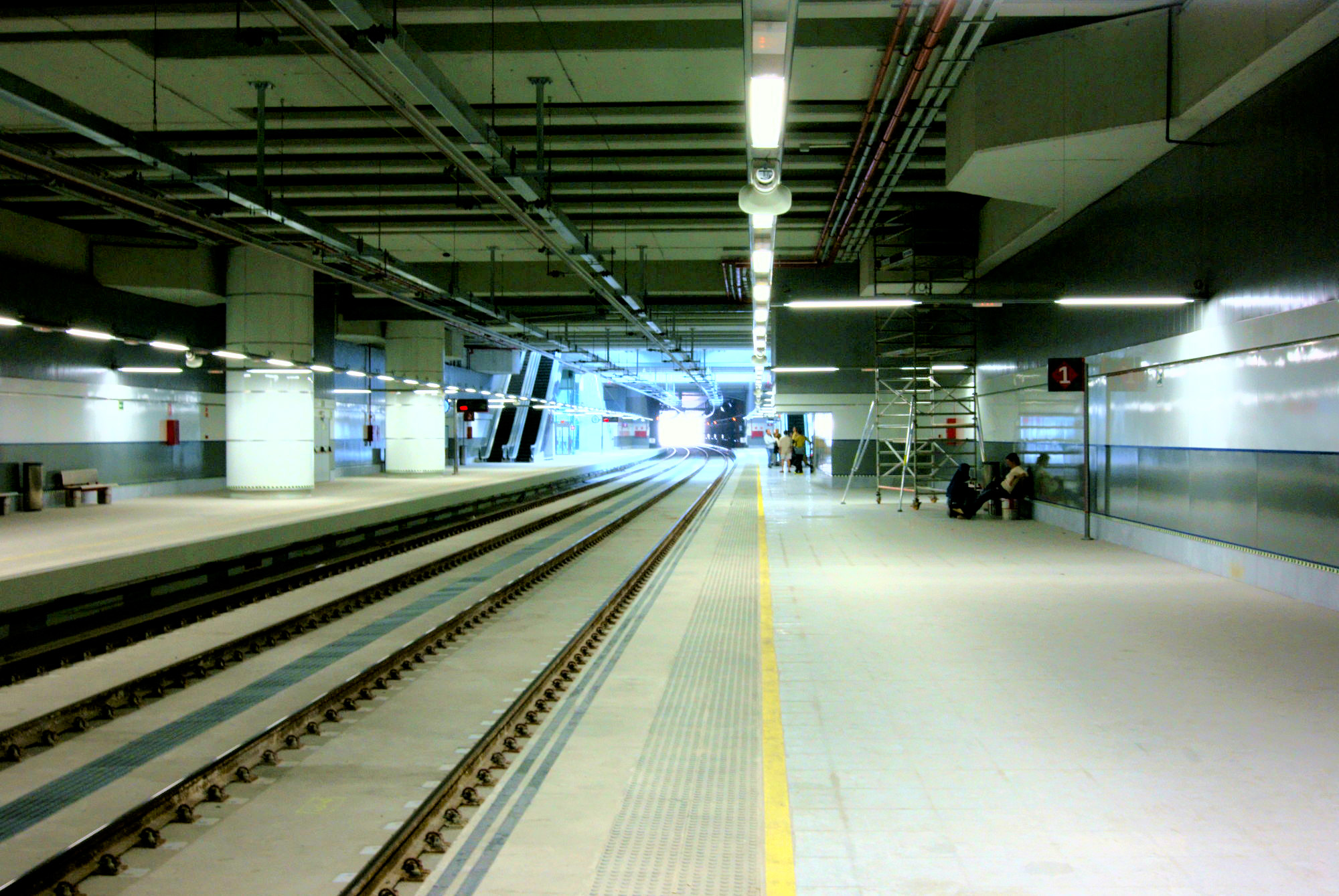 Málaga airport train station, platform 1.